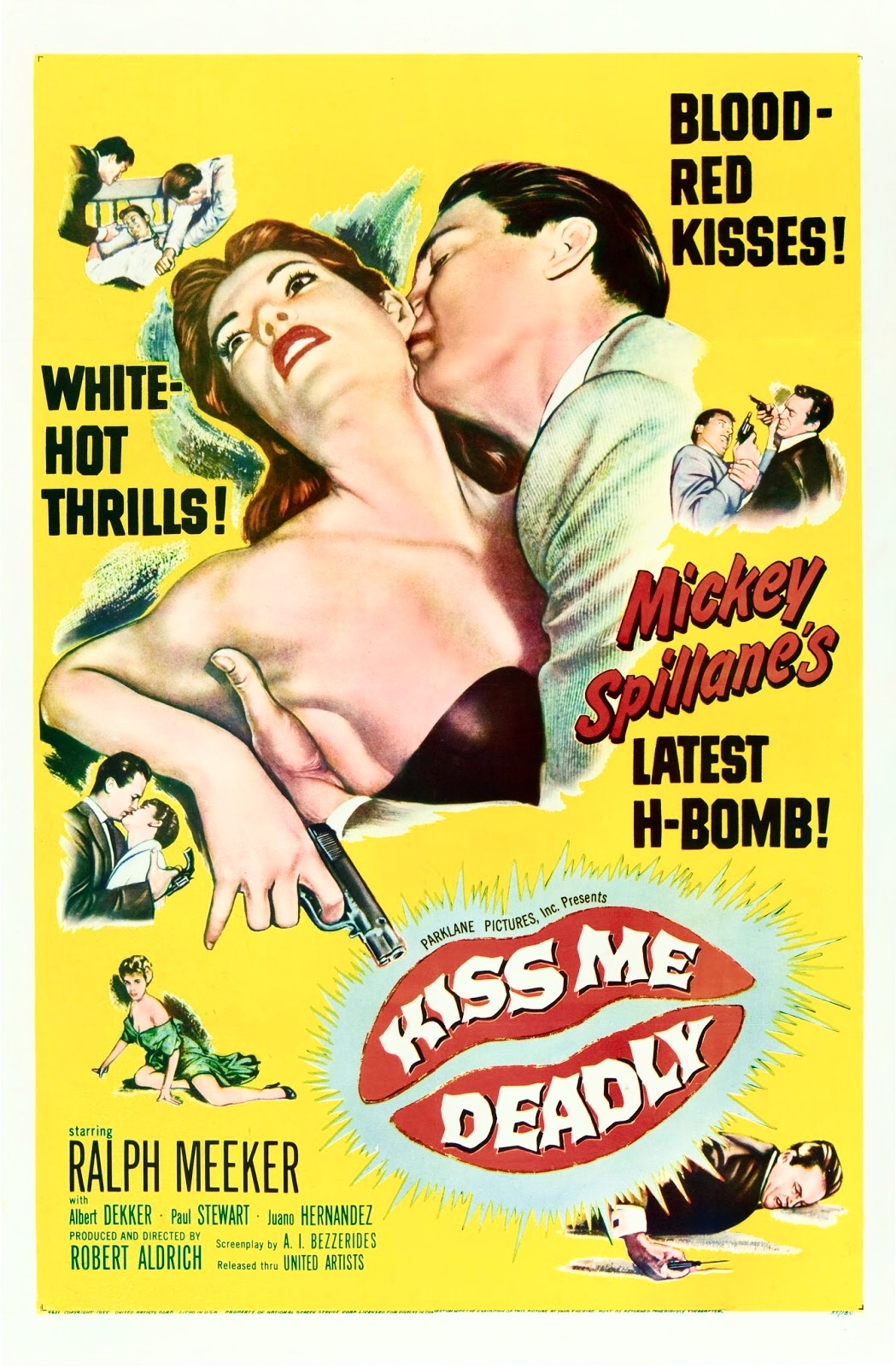 One sheet poster for Kiss Me Deadly